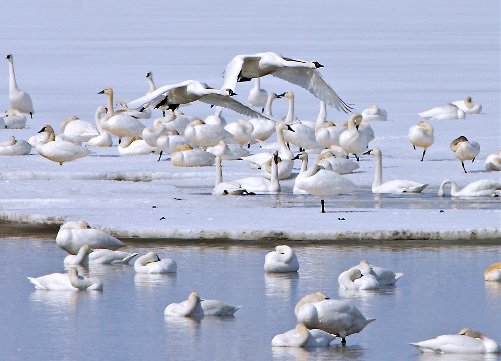 Photo: D. Montgomery, USFWS